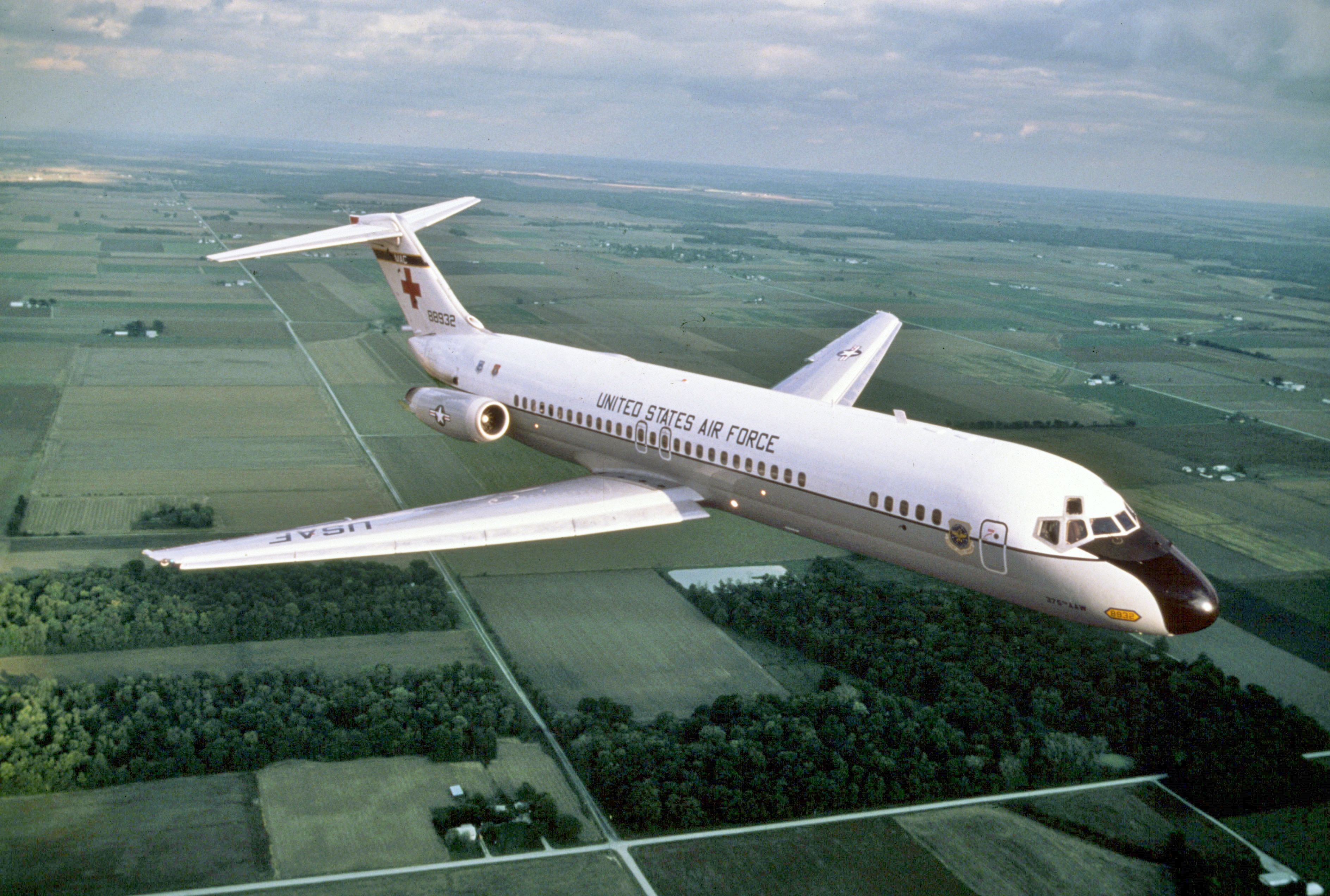 C-9 Nightingale in 1968